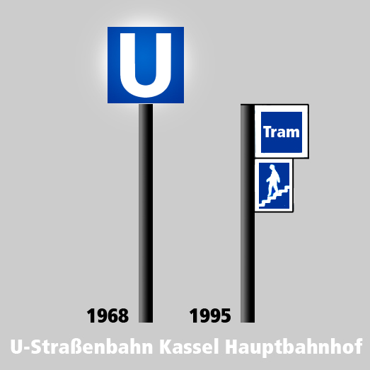 Signs of the underground tram station in Kassel, 1968 and 1995